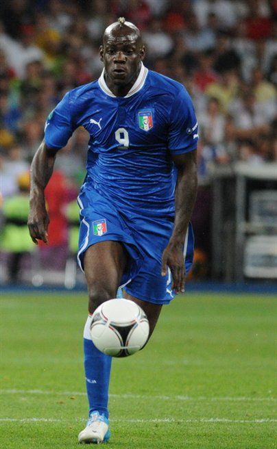 Mario Balotelli at Euro 2012 match against England